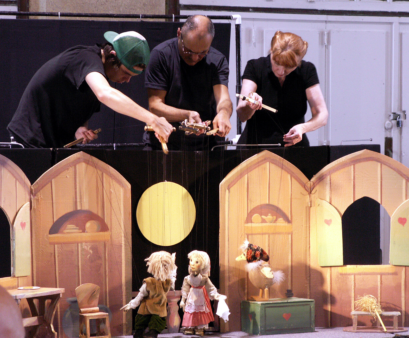 Marionette puppet show for kids in Asbury Park, NJ